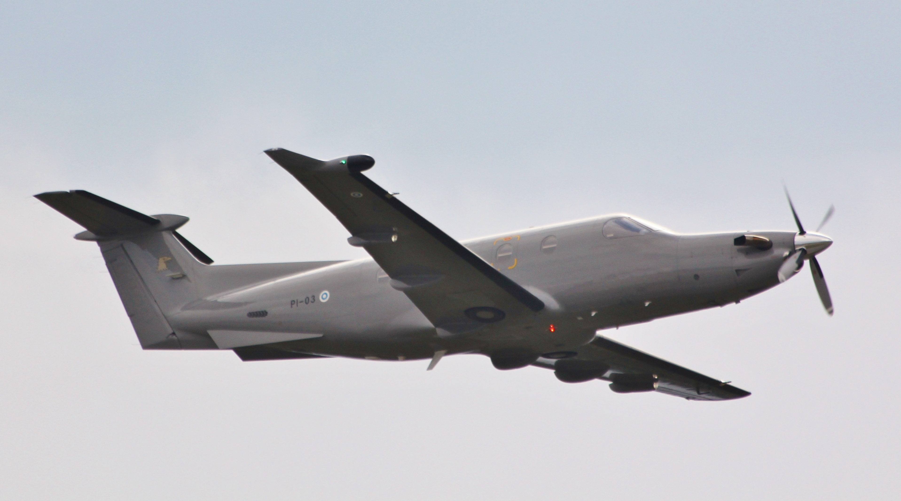 Finnish air force Pilatus PC-12NG (PI-03) over Oulu Airport at Tour de Sky 2014 air show.